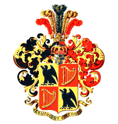 Coat of Arms of Baulin family